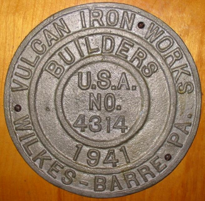 Vulcan Iron Works builder's plate on display at the MidContinent Railway Museum, North Freedom, WI Photo by Sean Lamb (Slambo) October 10 2004